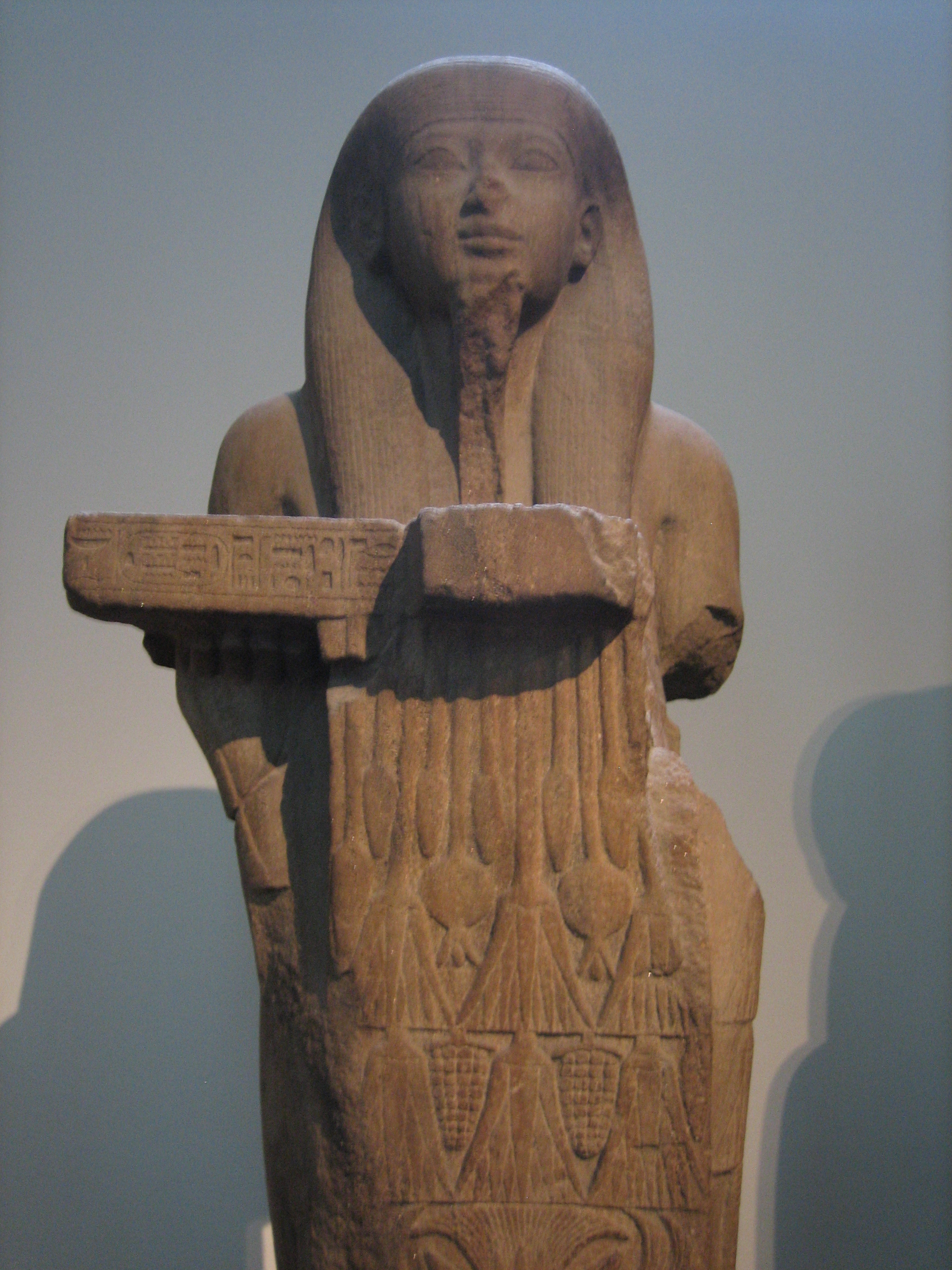 Quartzite statue of Osorkon I as the Nile-god Hapy from Karnak, Egypt, 22nd Dynasty, about 920 BC. Dedicated by Sheshonq, Osorkon's son. Room 4: Egyptian sculpture, British Museum. Hapy, the personification of the River Nile, is frequently shown in human form with a sagging paunchy stomach and heavy breasts. This mixture of male and female characteristics is intended to signify fertility and the richness of the natural world. To reinforce this, the abundance that the Nile brings is displayed by the offering table which the god holds, with its overflowing mass of the produce of Egypt. Statues such as this have much in common with the 'fecundity figures' placed in rows at the bottom of temple walls; these are intended to represent the fertility and productiveness of the ground on which the temple stands. The texts on this statue name King Osorkon I (about 924-889 BC) and it is presumably his features that are represented. The small figures on the side and associated texts indicate that the statue was dedicated by Sheshonq, Osorkon's son. Portraits of kings of the Twenty-second Dynasty are very rare, and it would appear that this statue is made to look very like statues of the later Eighteenth Dynasty, perhaps in a conscious attempt to recapture the spirit of the reigns of Thutmose IV and Amenhotep III.